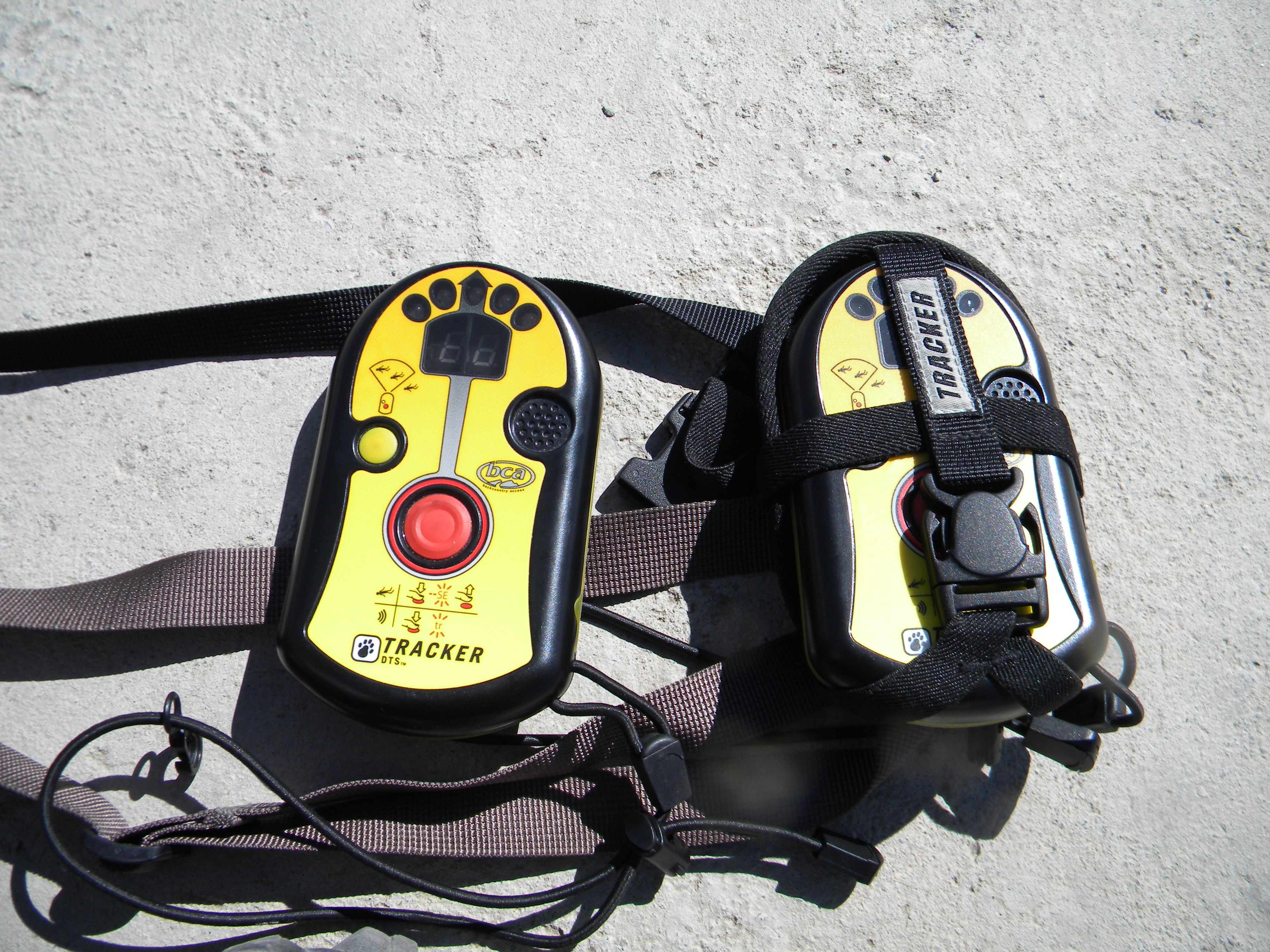 Avalanche Victim Device is used to search a victim of avalanche who is buried under the snow. The device used by the victim transmits a signal which is received by another device of the rescuer.